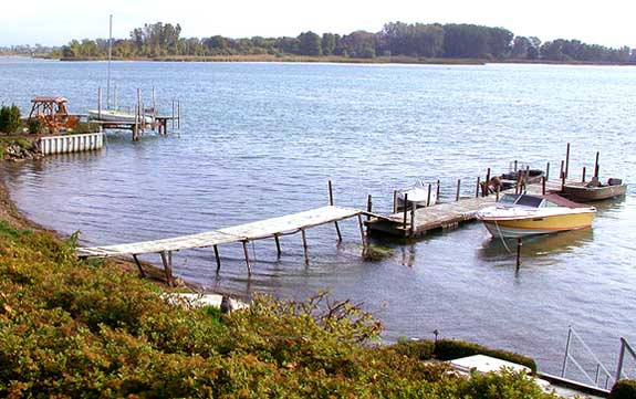 Detroit River seen from Grosse Ile Township (taken Sept. 28, 2004) © 2004 Matthew Trump